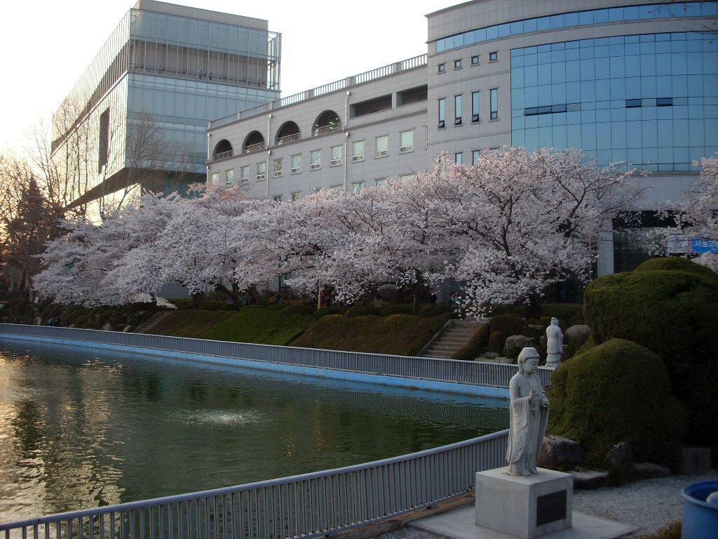 Wongkwang University Law Building in early spring